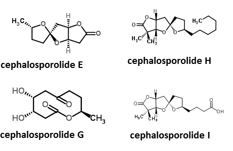 Cephalosporolide E, H, G, and I